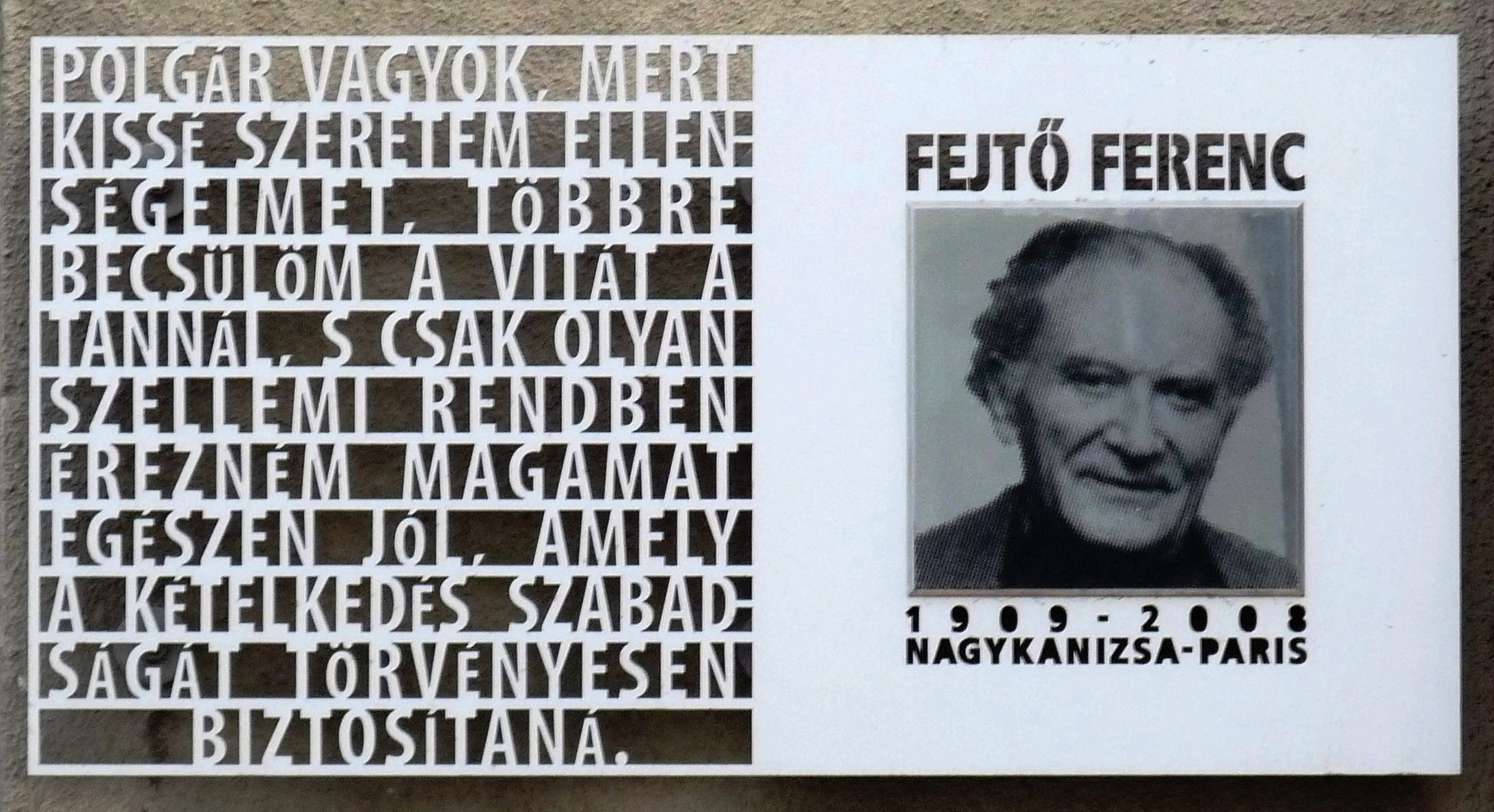 Commemorative plaque to Mr. Ferenc Fejtő (1909-2008) Hungarian-born French journalist and political scientist, specializing in Eastern Europe. It is affixed to the house where he was born. Author of the relief and the graphic is Mr. Ádám Krisztián. It was unveiled on August 30, 2009. Quote in Hungarian: “I am a citizen, because I like my enemies a little, I prefer the debate to the doctrine, and I would feel myself quite well only in an intellectual order that would provide legally the freedom to doubt.” (Nagykanizsa, Csengery Avenue Nr 22).